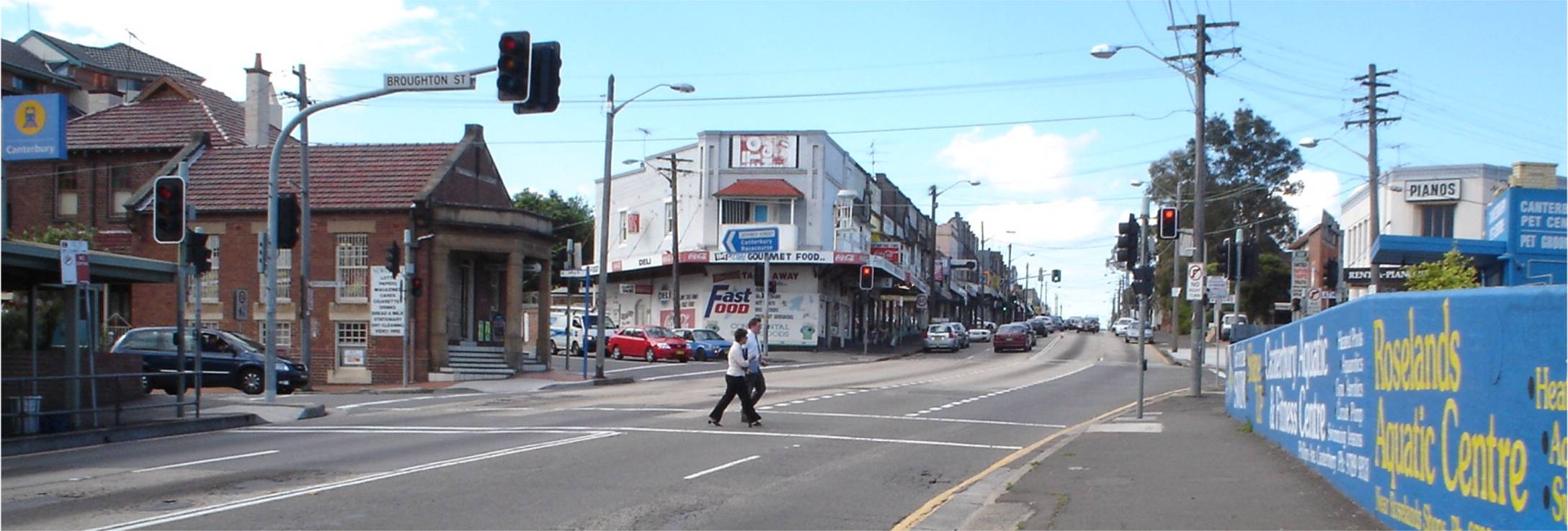 Photo taken by David Latimer (dlatimer) of Canterbury NSW. Released to Public Domain on 22Sep2005.